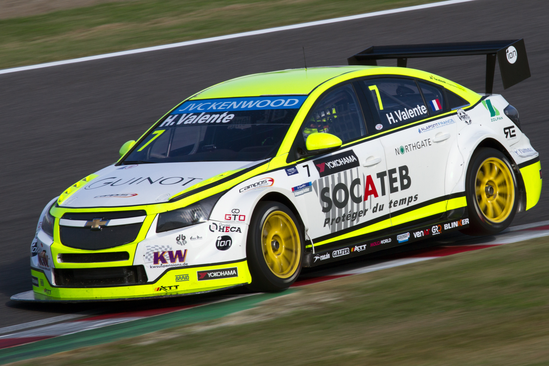 World Touring Car Championship 2014 Race of Japan: Hugo Valente (Campos Racing)